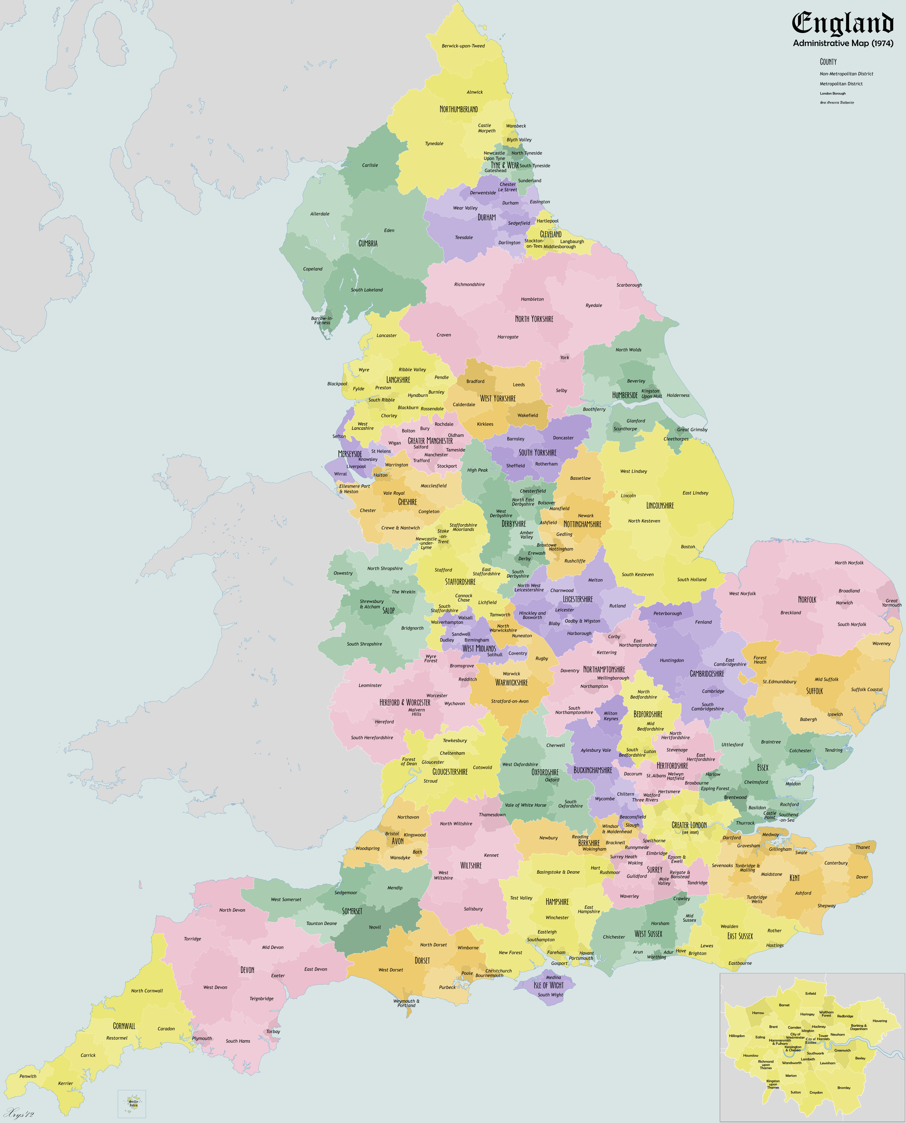 Administrative map of England in 1974 following the Local Government Act (1972) Reforms